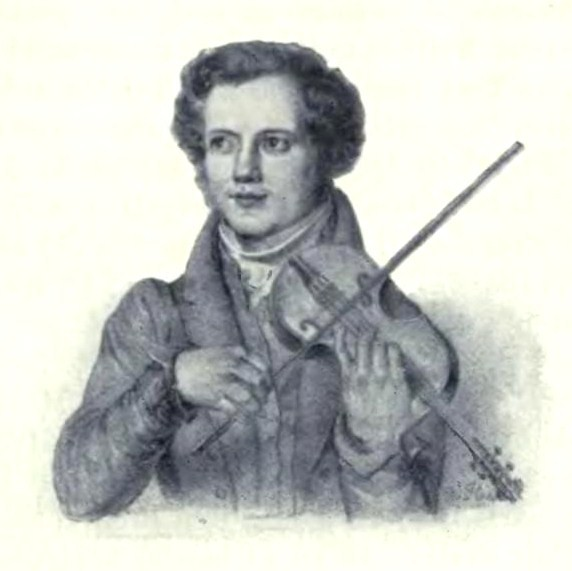 German composer August Pott. After a lithograph by Carl Henckel. Image from Nils Personne: Svenska Teatern VIII (1927).